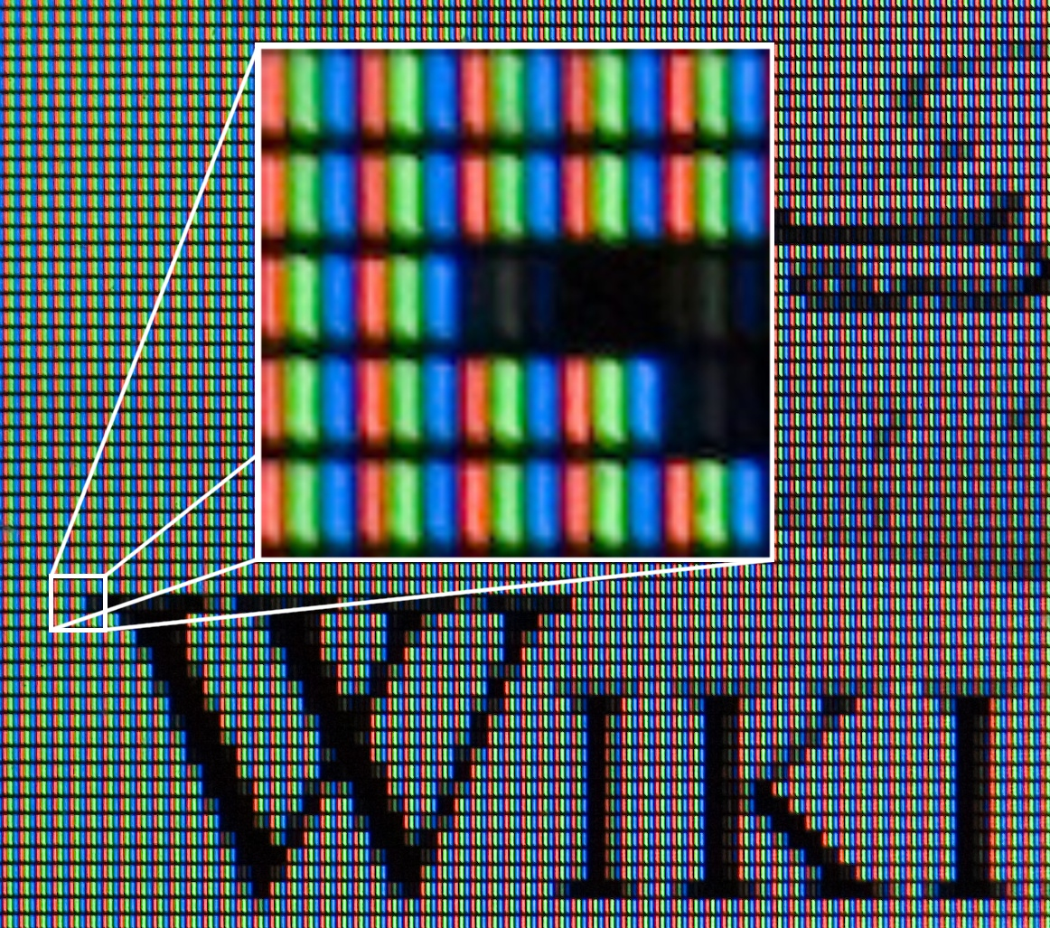 Macro shot of an LCD monitor showing the red, green and blue elements. I USer:Ravedave added the zoom box to the original image: Image:Liquid_Crystal_Display_Macro_Example.jpg